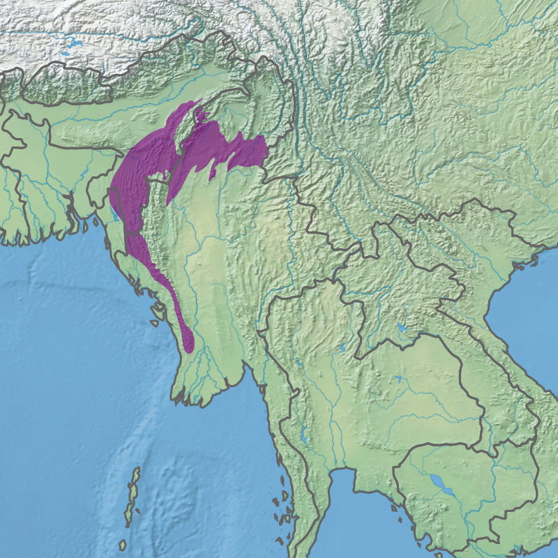 Ecoregion IM0131 - Mizoram-Manipur-Kachin rainforest ecoregion (in purple)